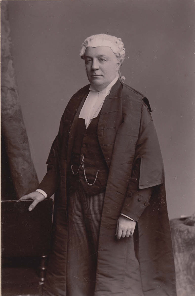 Frederick Adolphus Philbrick The London Philatelist, vol. XX, 1911